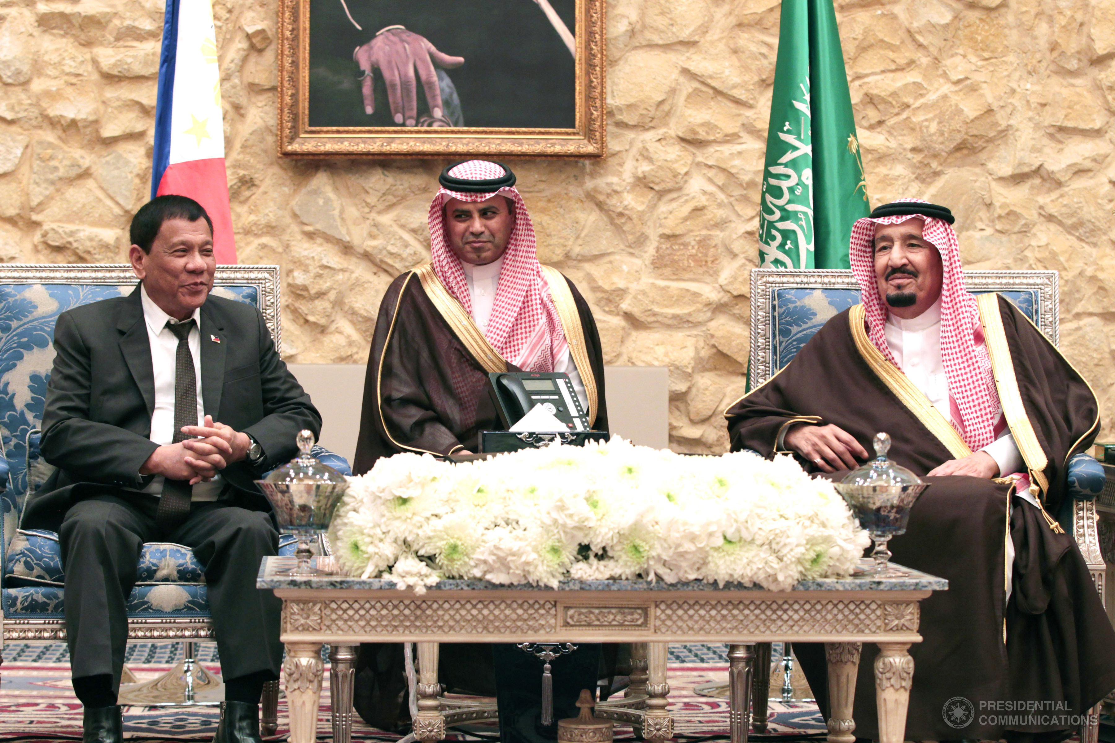 Philippine President Rodrigo Duterte converses with King Salman of Saudi Arabia in Riyadh during the former's state visit to the country on April 11, 2017.